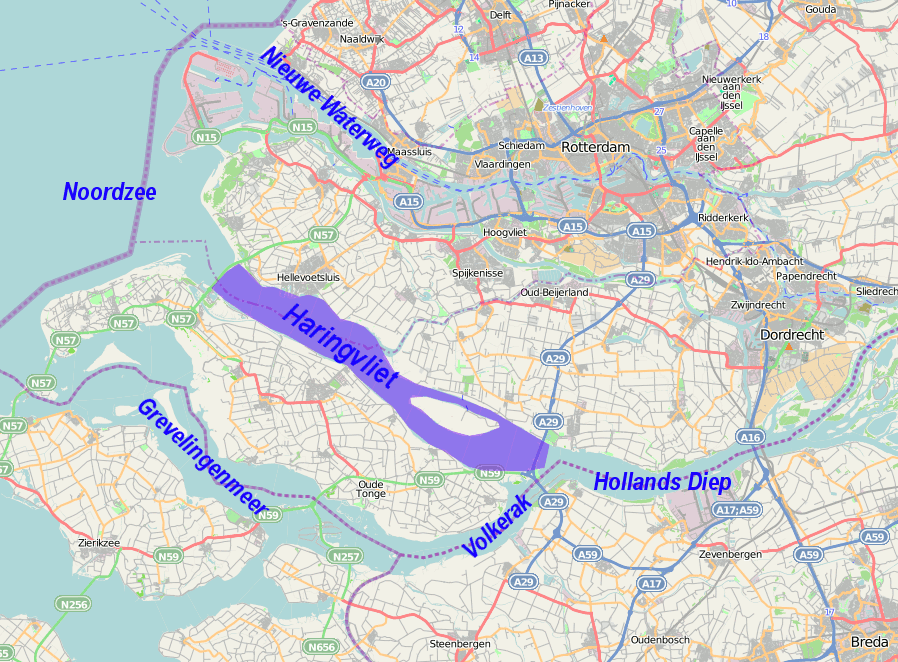 Haringvliet,Netherlands location map